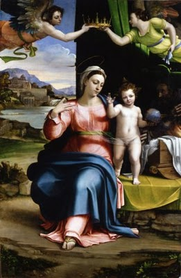 The Holy Family